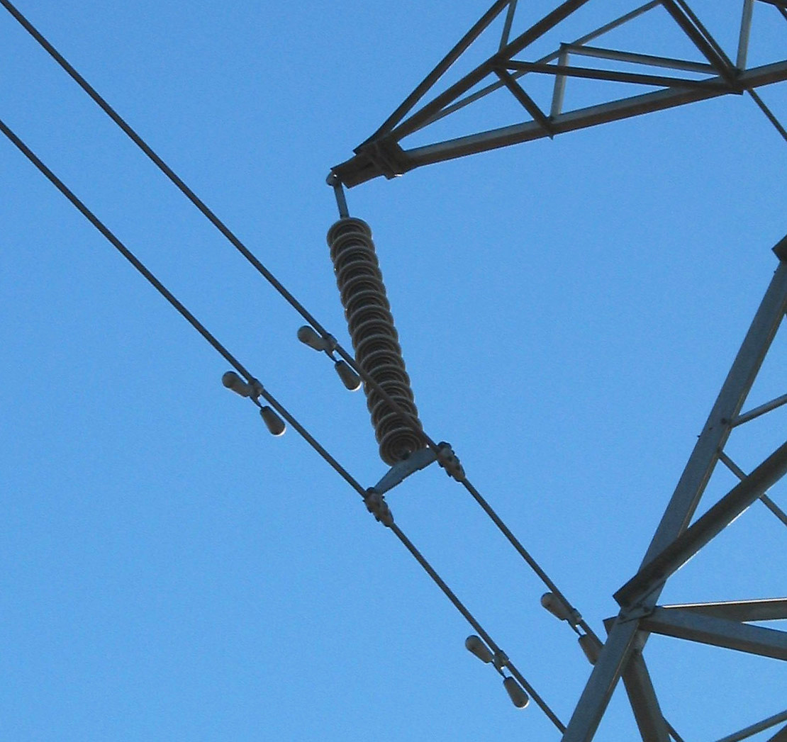 A set of Stockbridge dampers (hanging weights) on power transmission lines north of Fresno, CA. These prevent wind-induced vertical vibrations of the line, often observed as a "singing" sound from suspended power lines, which can cause structural wear. The dampers are installed at the first node of the vibration on either side of the insulator.